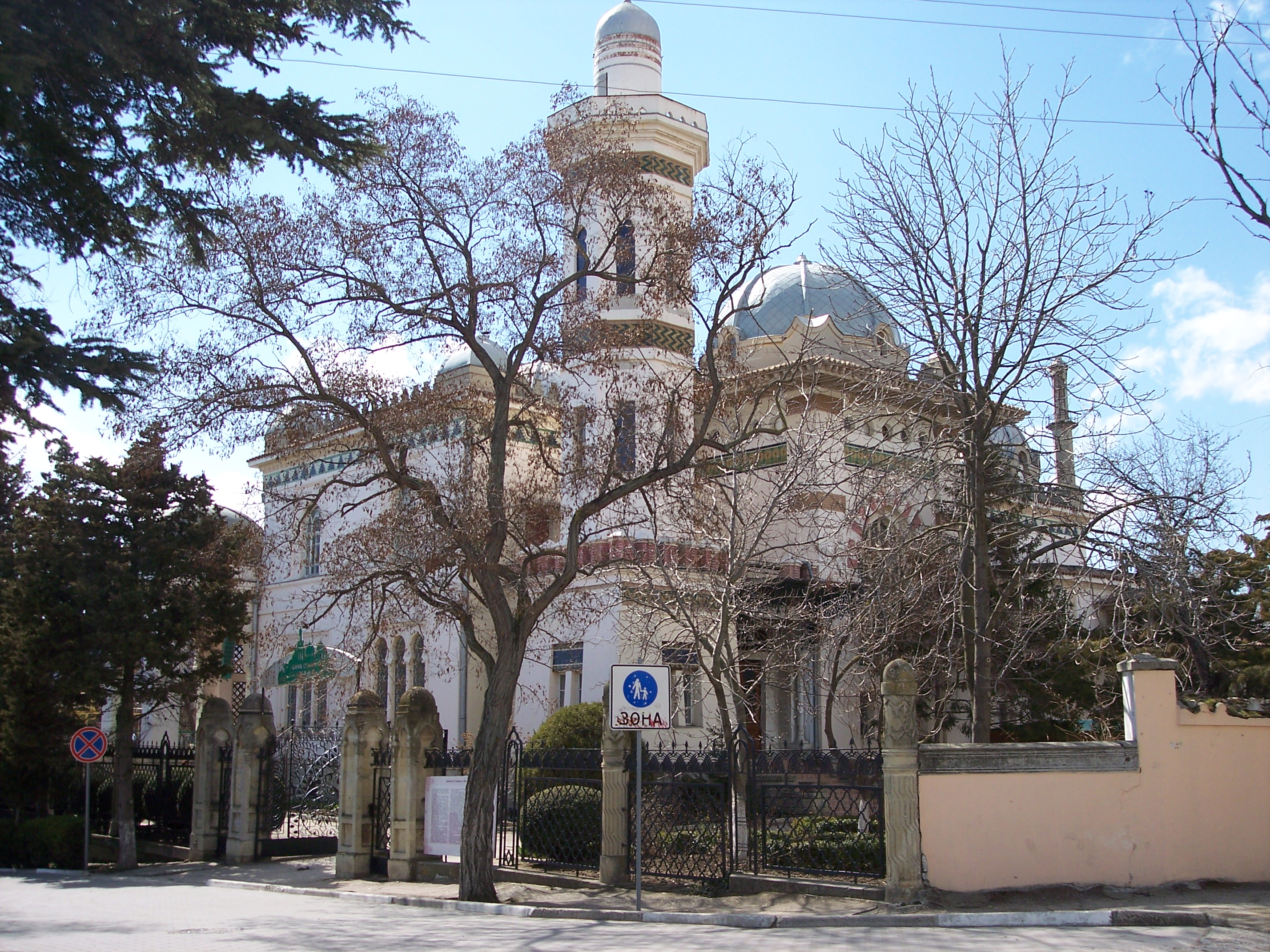 Dacha Stamboli, Feodosiya, Crimea